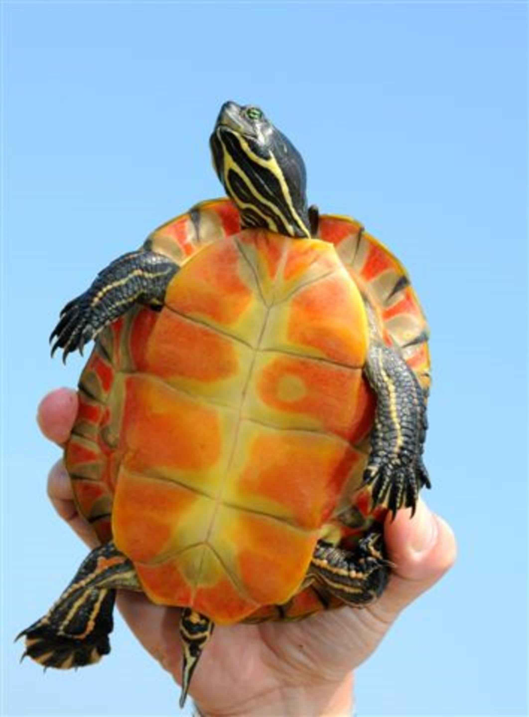 Image title: Pseudemys rubriventris northern red bellied crooter turtle Image from Public domain images website